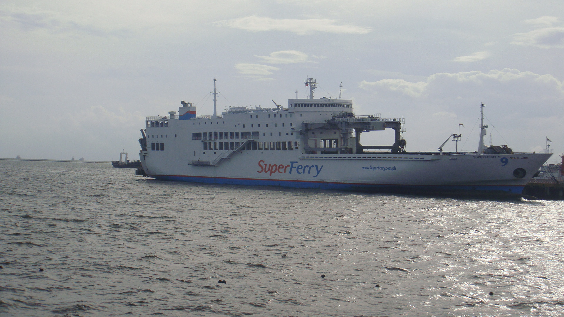 SuperFerry 9